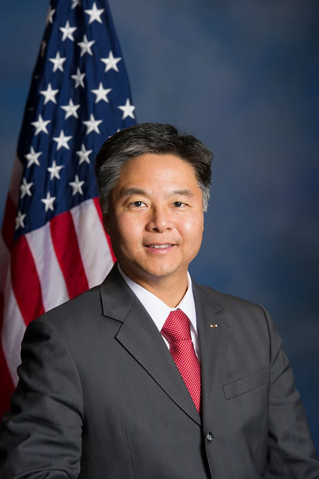 Official portrait of representative Ted Lieu